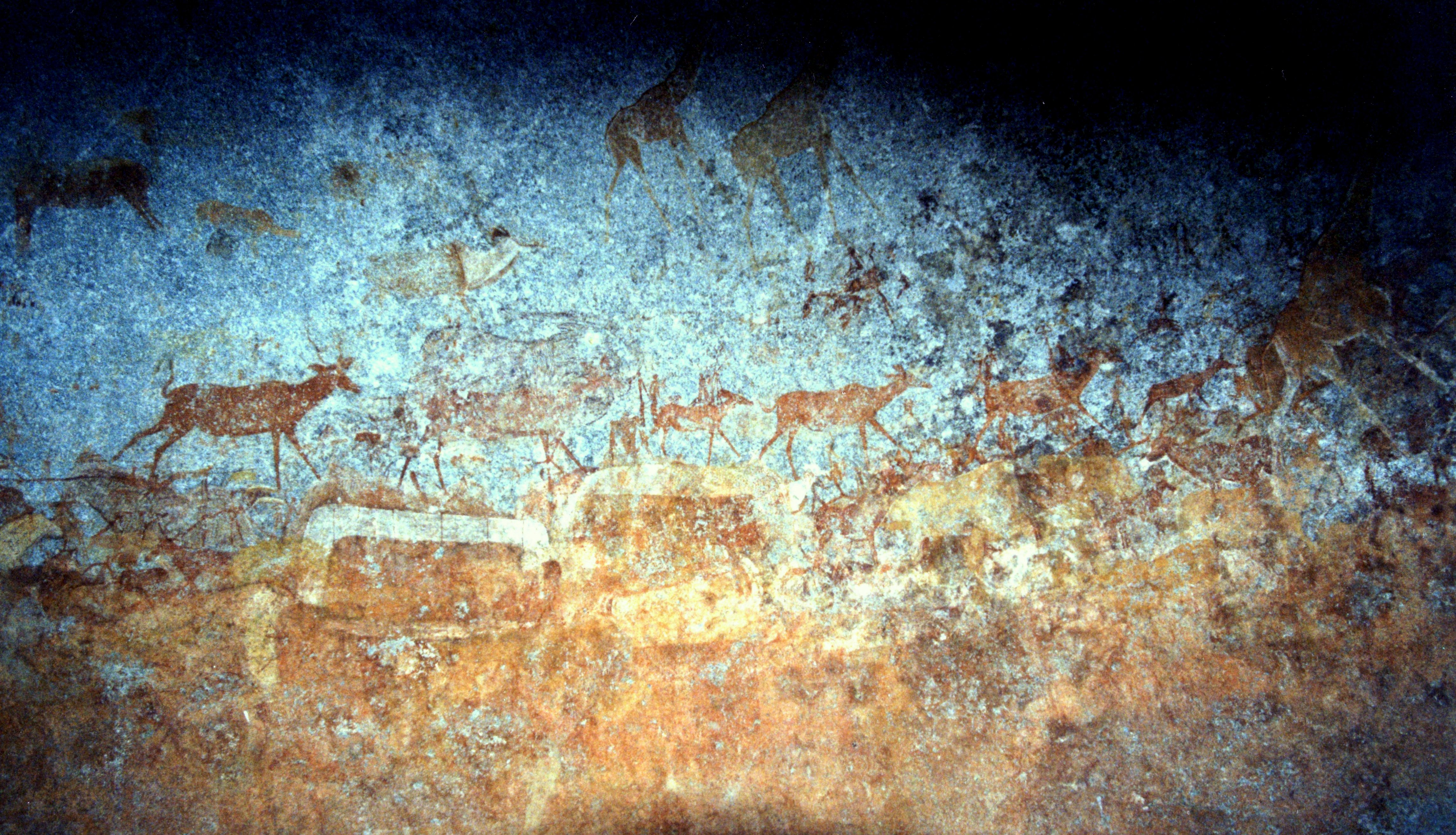 Nswatugi Cave Matobo National Park